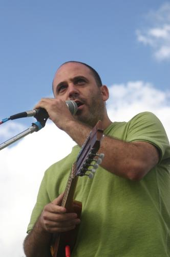 edu schmidt